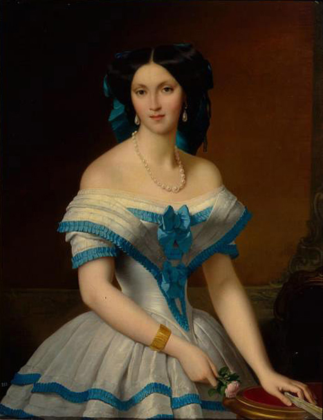 Portrait of Princess Elizaveta Alexandrovna Chernysheva (1826–1902), wife of Prince Vladimir Ivanovich Baryatinsky